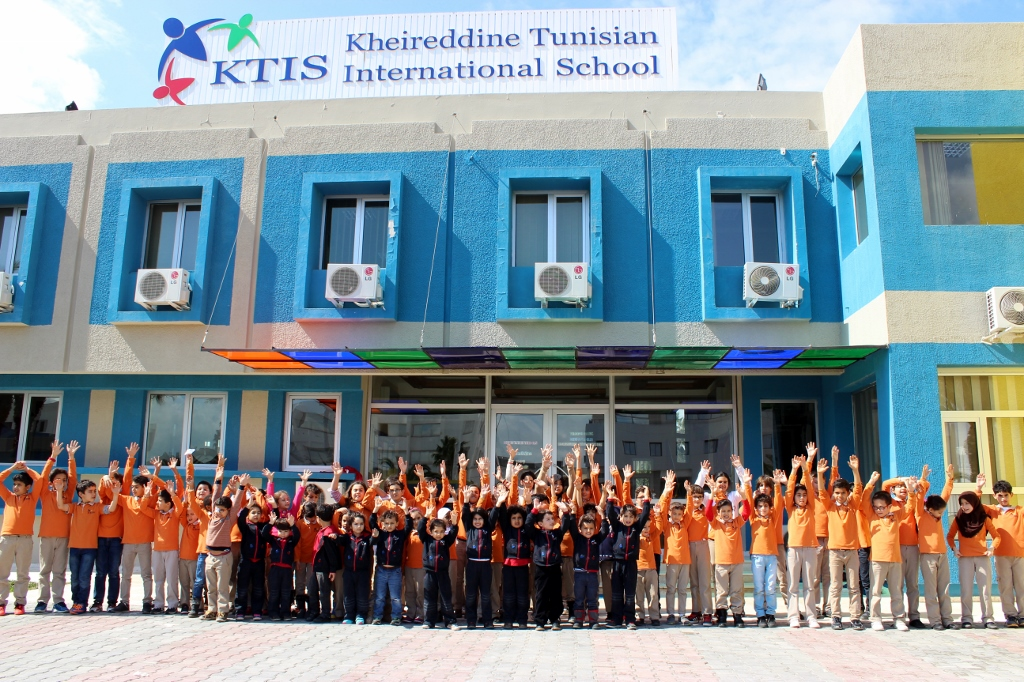 KTIS Kindergarten & Primary Building